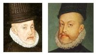 Two head of Phillip II - as young and old man (from Coello and Pantoja paintings)